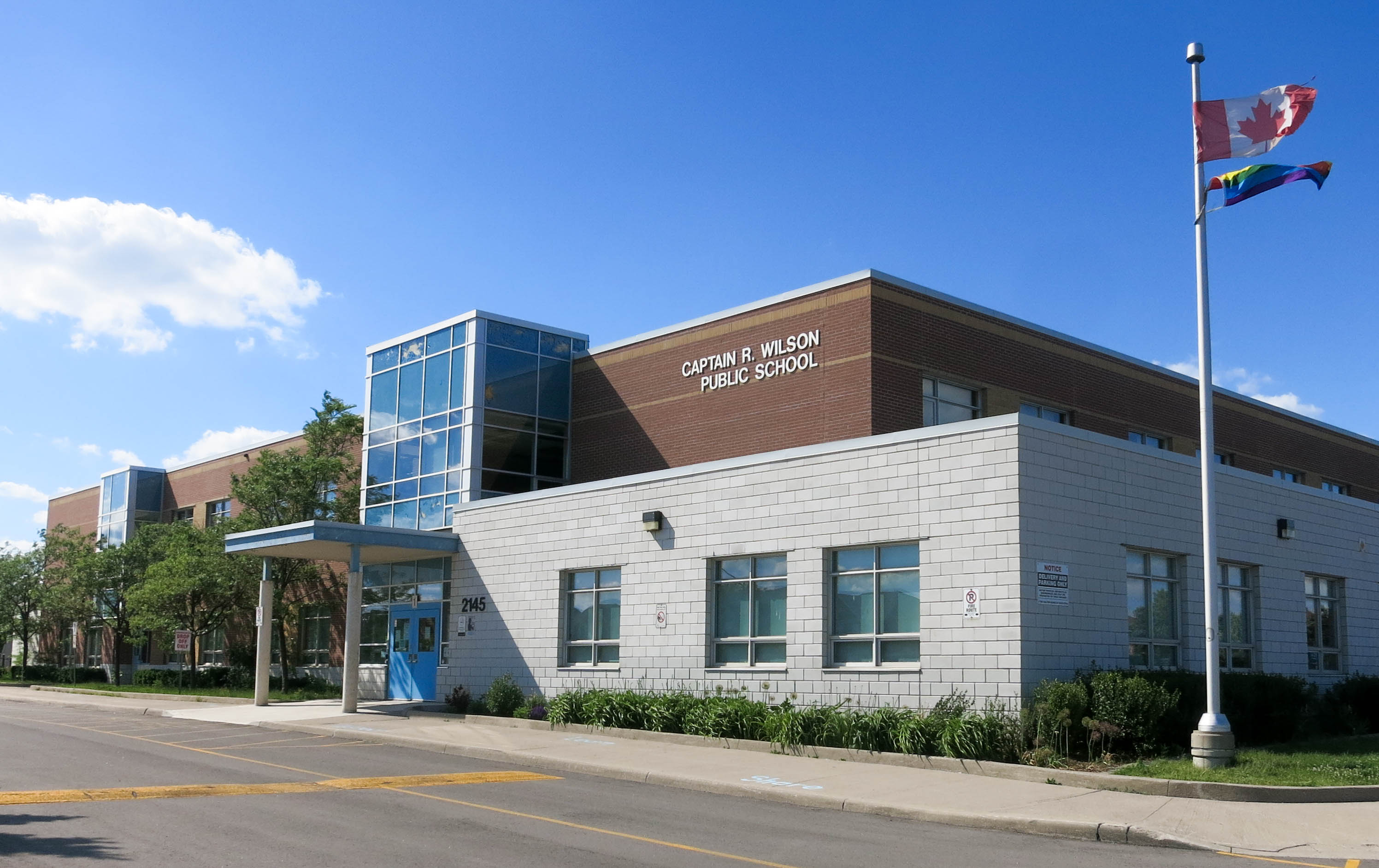 Captain R. Wilson Public School in Oakville, Ontario, Canada